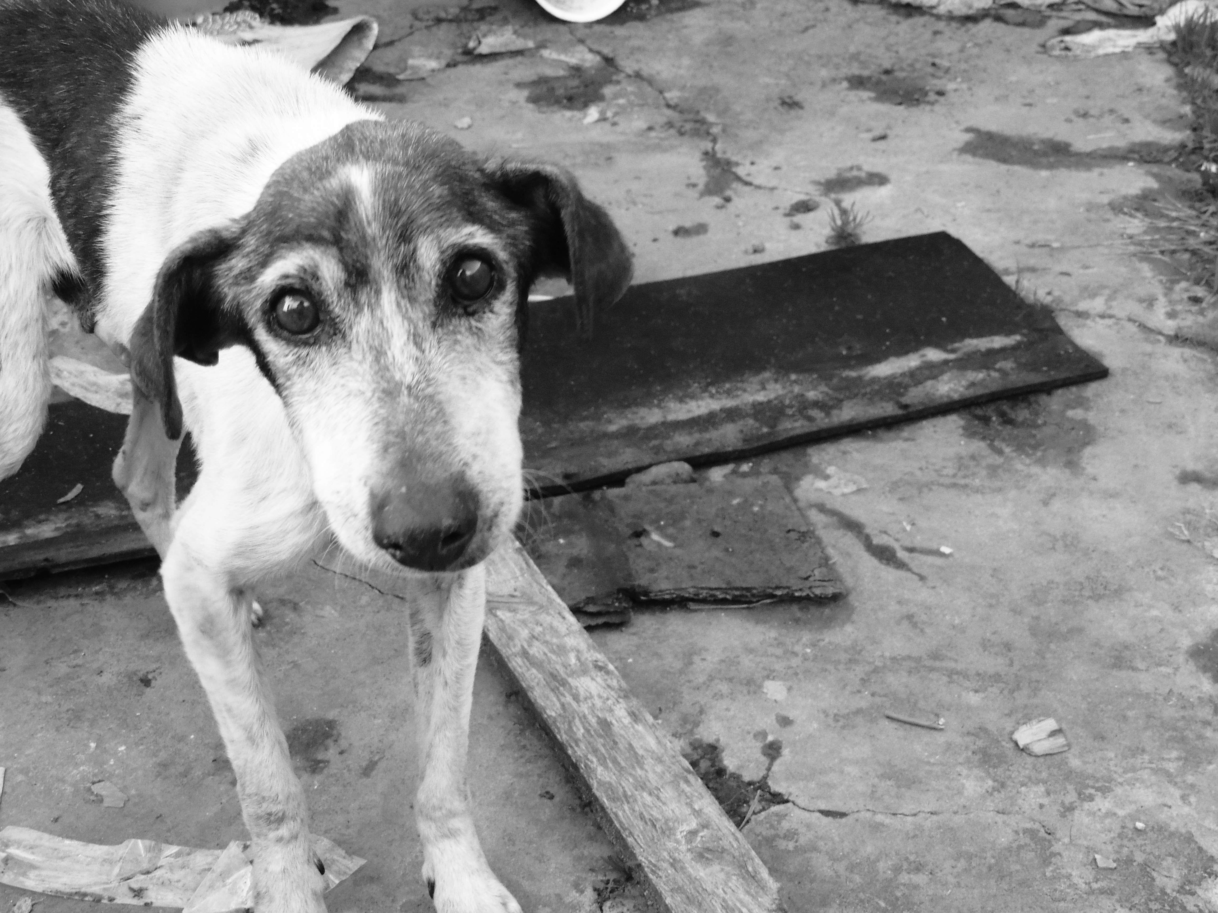 The picture shows a stray dog.